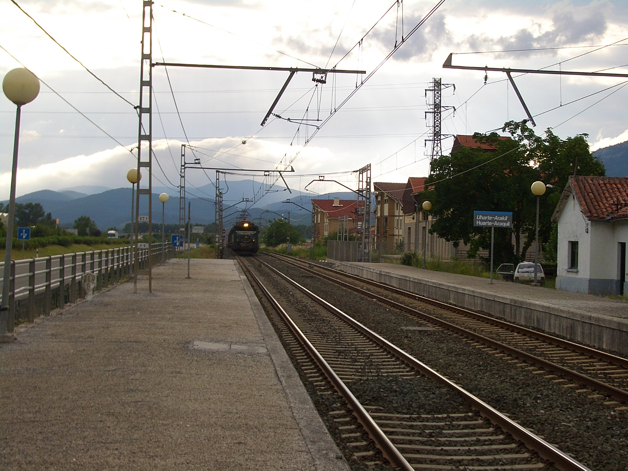 Uharte-Arakil (Huarte-Araquil) Station, Navarra, Spain